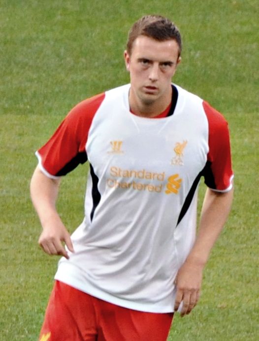 Danny Wilson warming up at Fenway Park